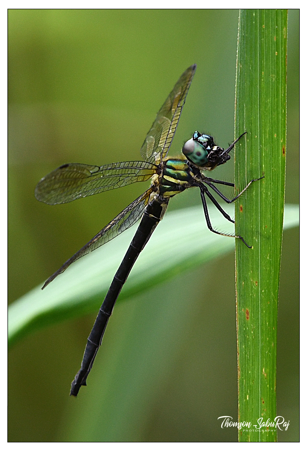 Idionyx travancorensis from Ponmudi hills, Thiruvananthapuram district, Kerala